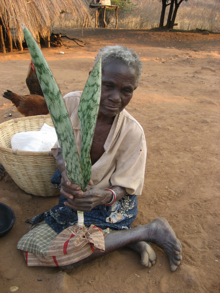 Rufina James (82 years old) of Humbe in Manica province of Mozambique showing Sanseviera hyacinthoides she uses to treat chicken diseases